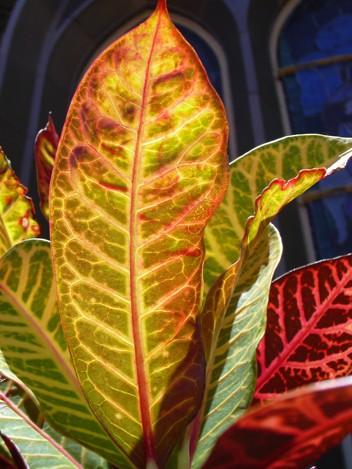 Codiaeum variegatum (leaves). Location: Maui, Baldwin Ave